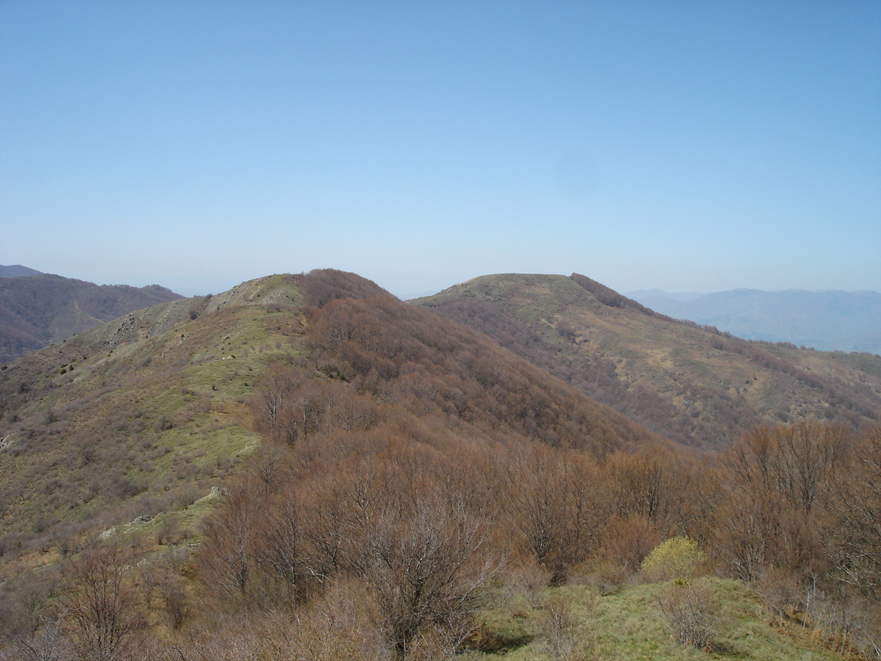 Sari Tash (in front) and Alti Tekne (in the back), peaks on Plackovica mountain Macedonia